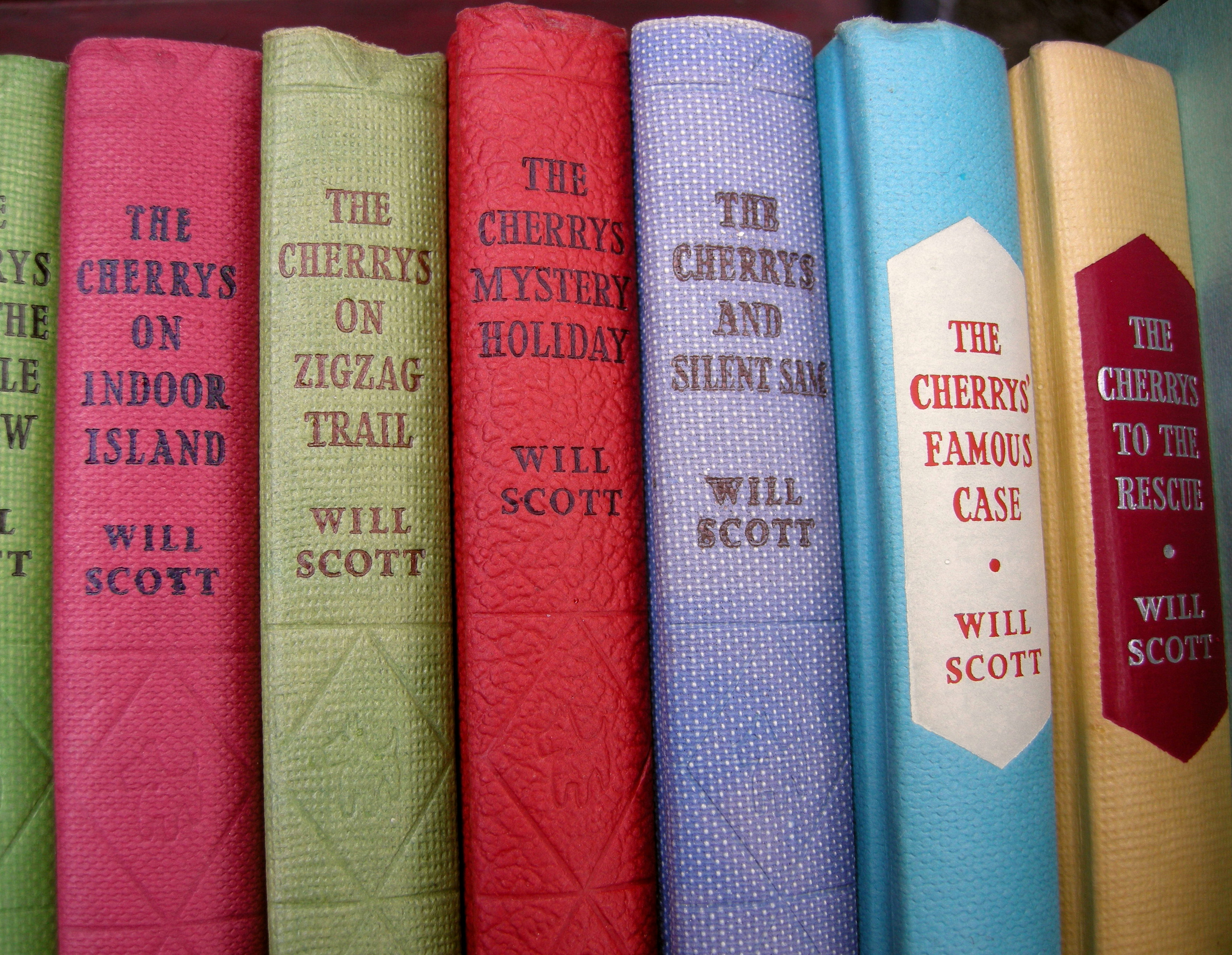 Books from The Cherrys series by Will Scott, plus one other. Published in the 1950s and 1960s.